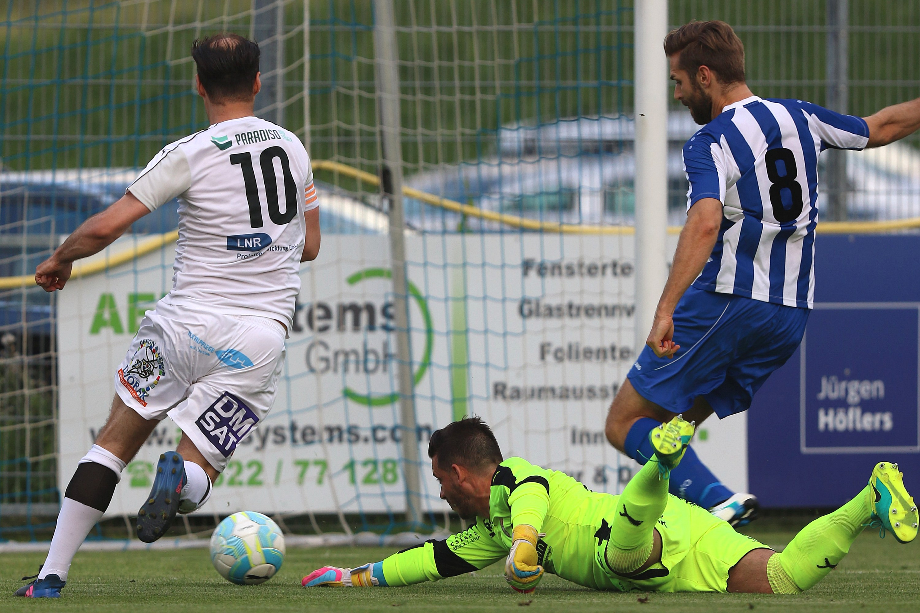 2017–18 Austrian Cup - SC Bad Sauerbrunn (blue shirts) vs. ASK-BSC Bruck/Leitha (white shirts) 0-4. – The photo shows from left to right Vedran Jerkovic, goalkeeper Bartolomej Kuru (ASK-BSC Bruck-Leitha) and Dominik Strondl.